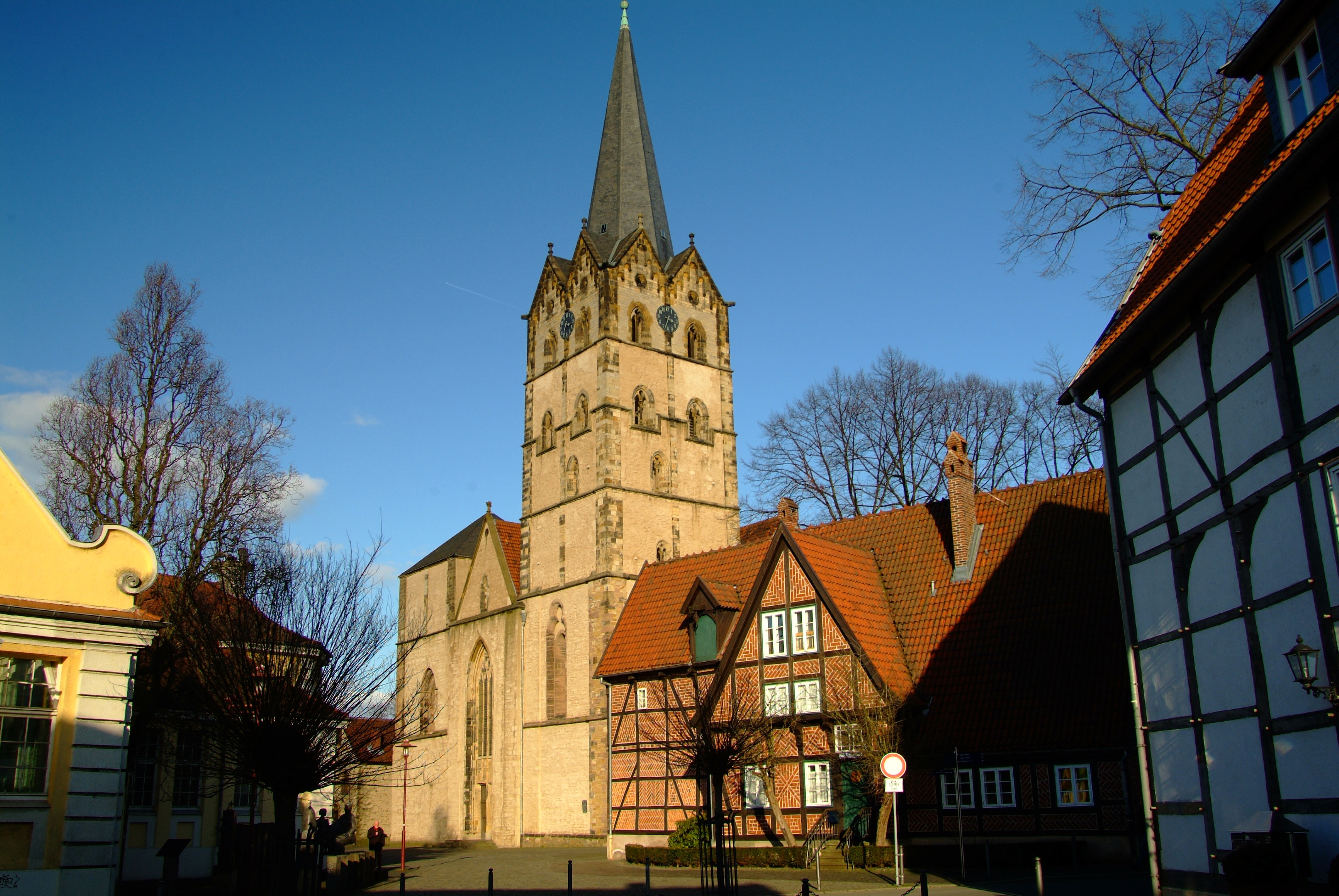 The Muensterkirche in District of Herford, North Rhine-Westphalia, Germany. During the middleages it was a famous monastery for the education of upperclass daughters. The red building in the front is named the Kantorhaus. It was built around the year 1480 and it is the second oldest house in framework architecture in North Rhine-Westphalia.